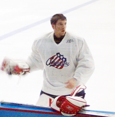 Jean_Marc_Pelletier, ice hcokey goaltender of the Rochester Americans